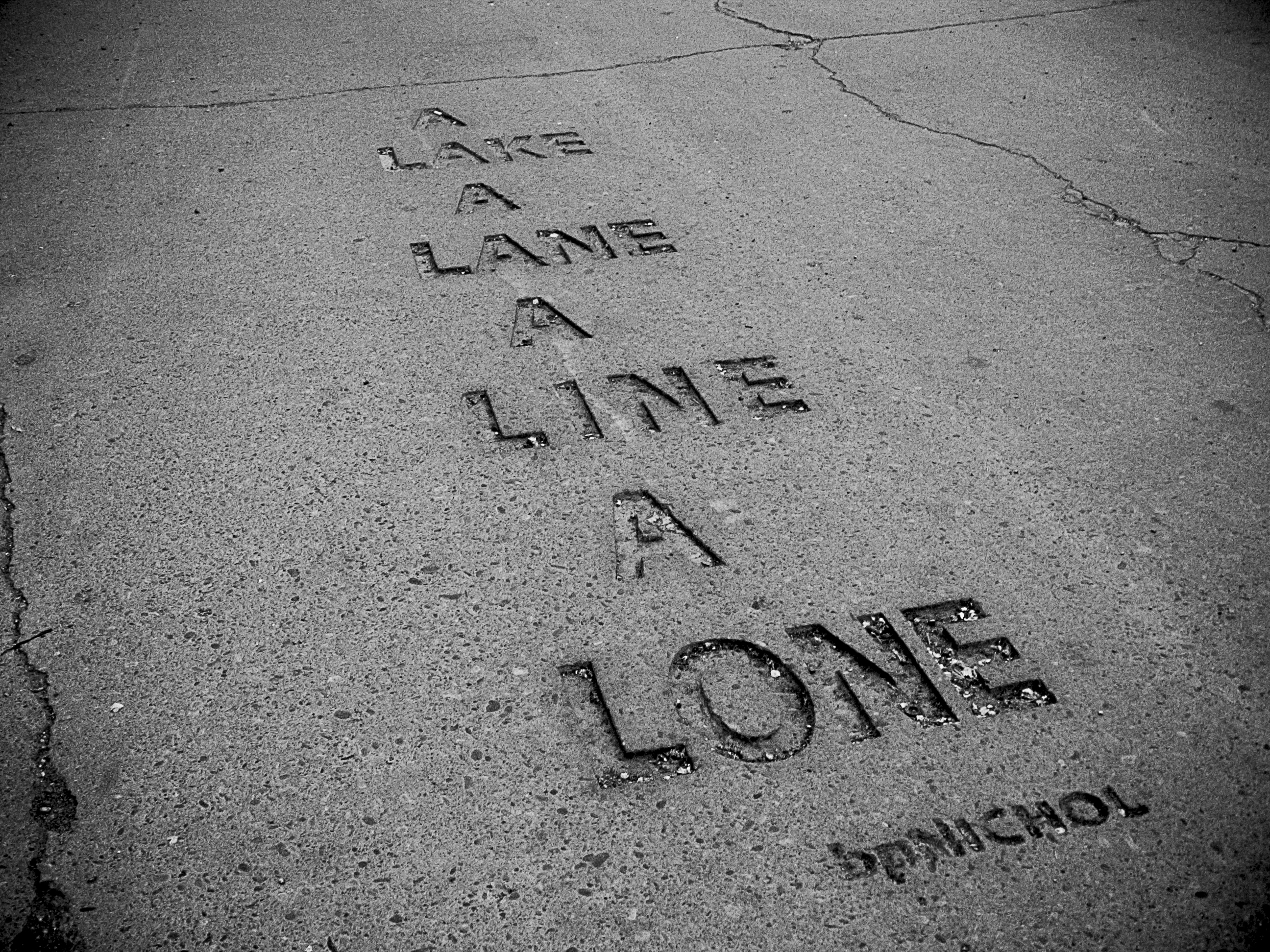 Photograph of poem by bpNichol